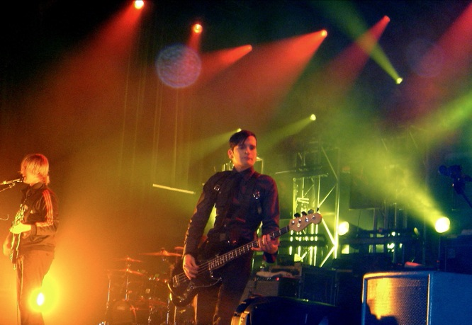 Interpol concert in Las Vegas, September 19, 2005.